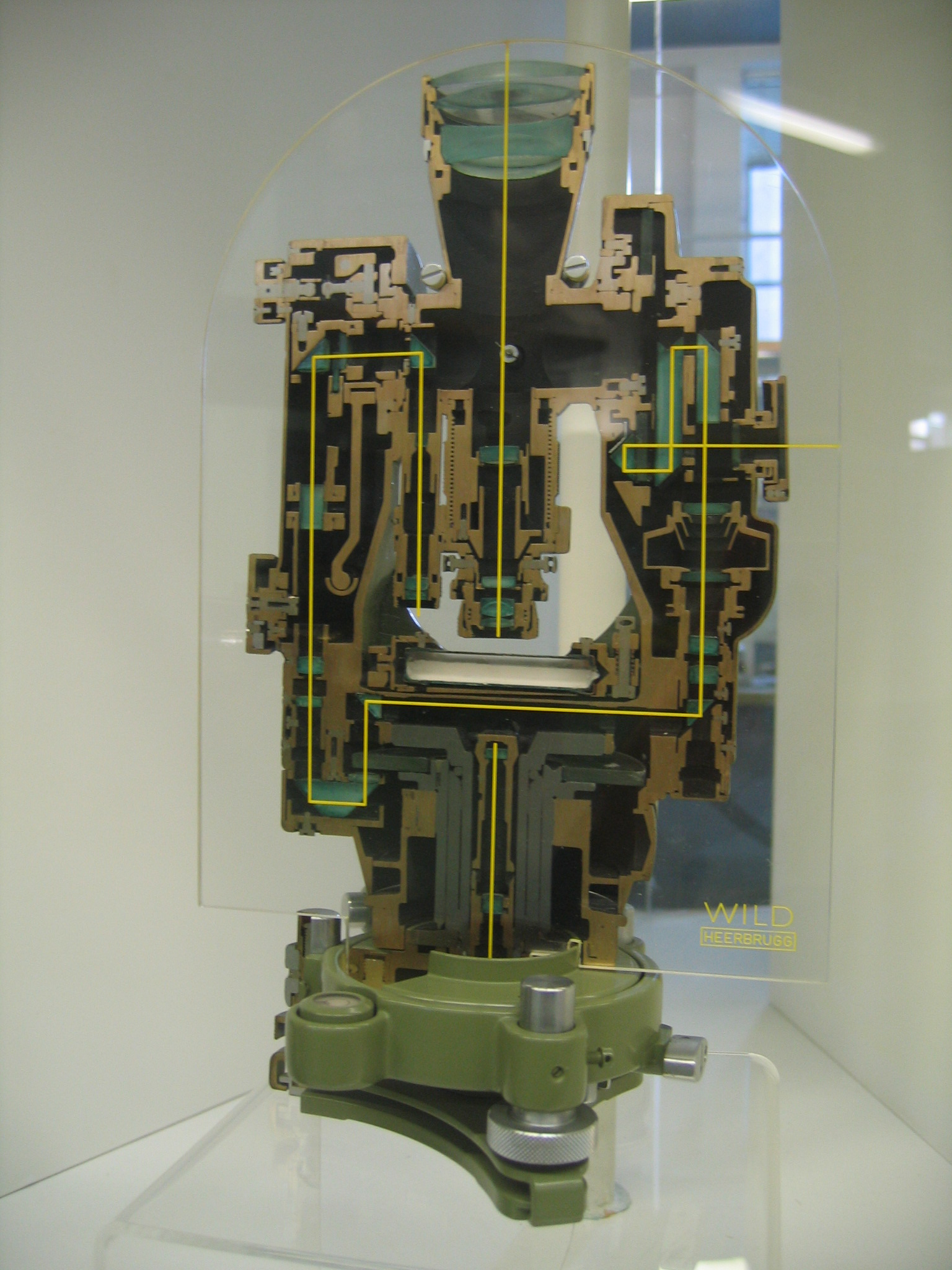 Sectioned model of a Wild Theodolite Located in the Science Museum, London